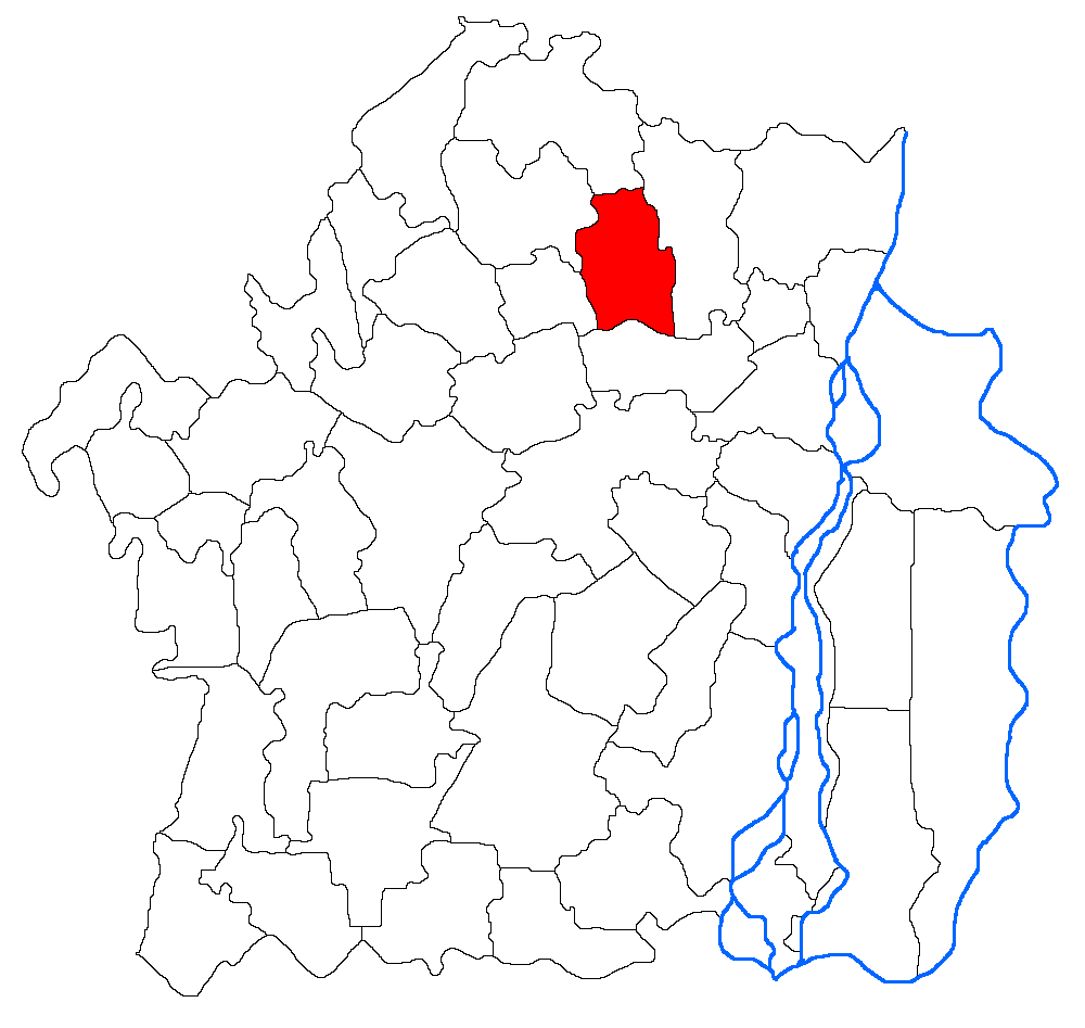 Limits of the commune of Romanu in Brăila County, Romania